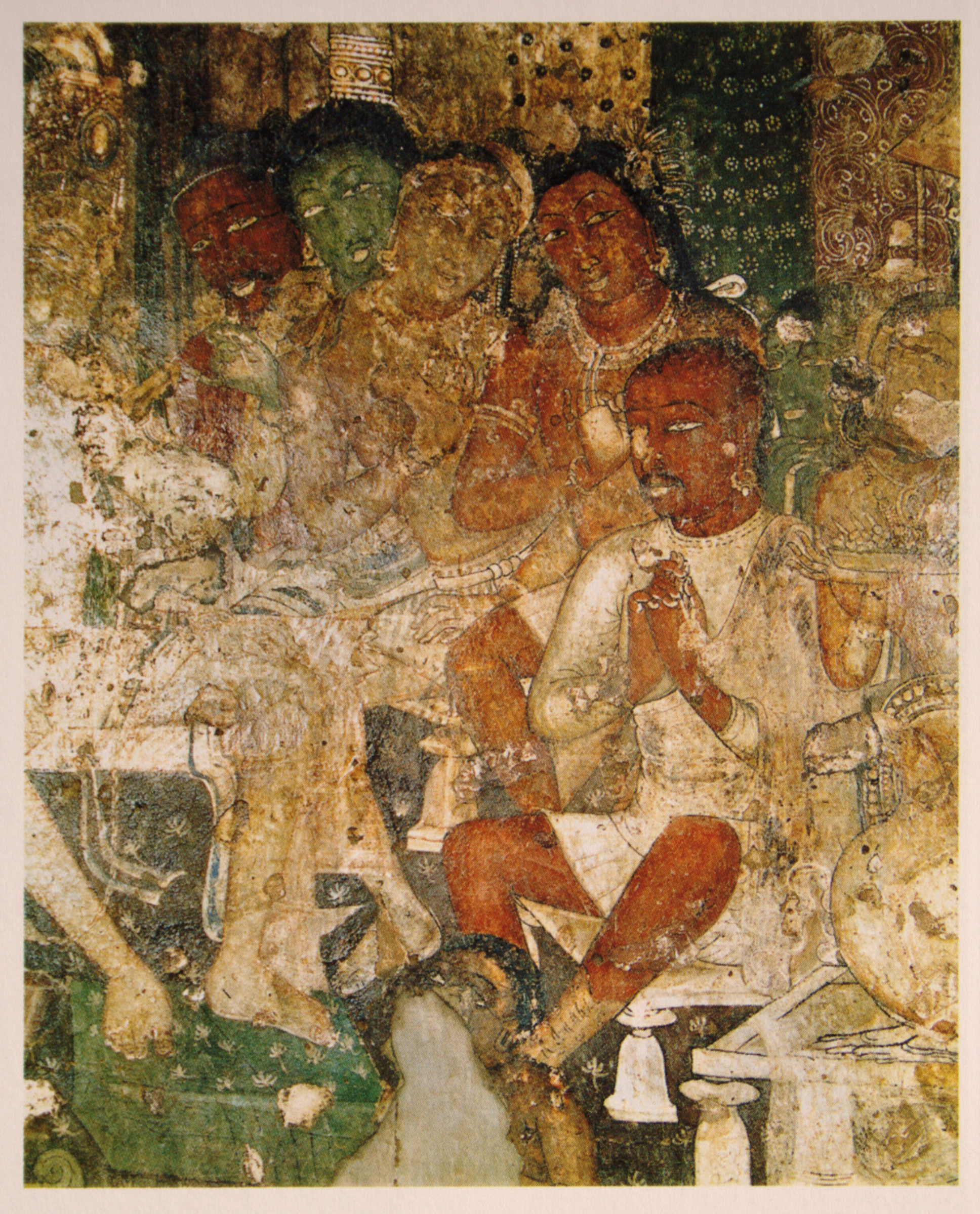 Hamsa jâtaka, cave 17, Ajanta, India. This painting probably shows one of the previous lifes of the Buddha. Painting on stone. Height (detail): ca. 1 m.